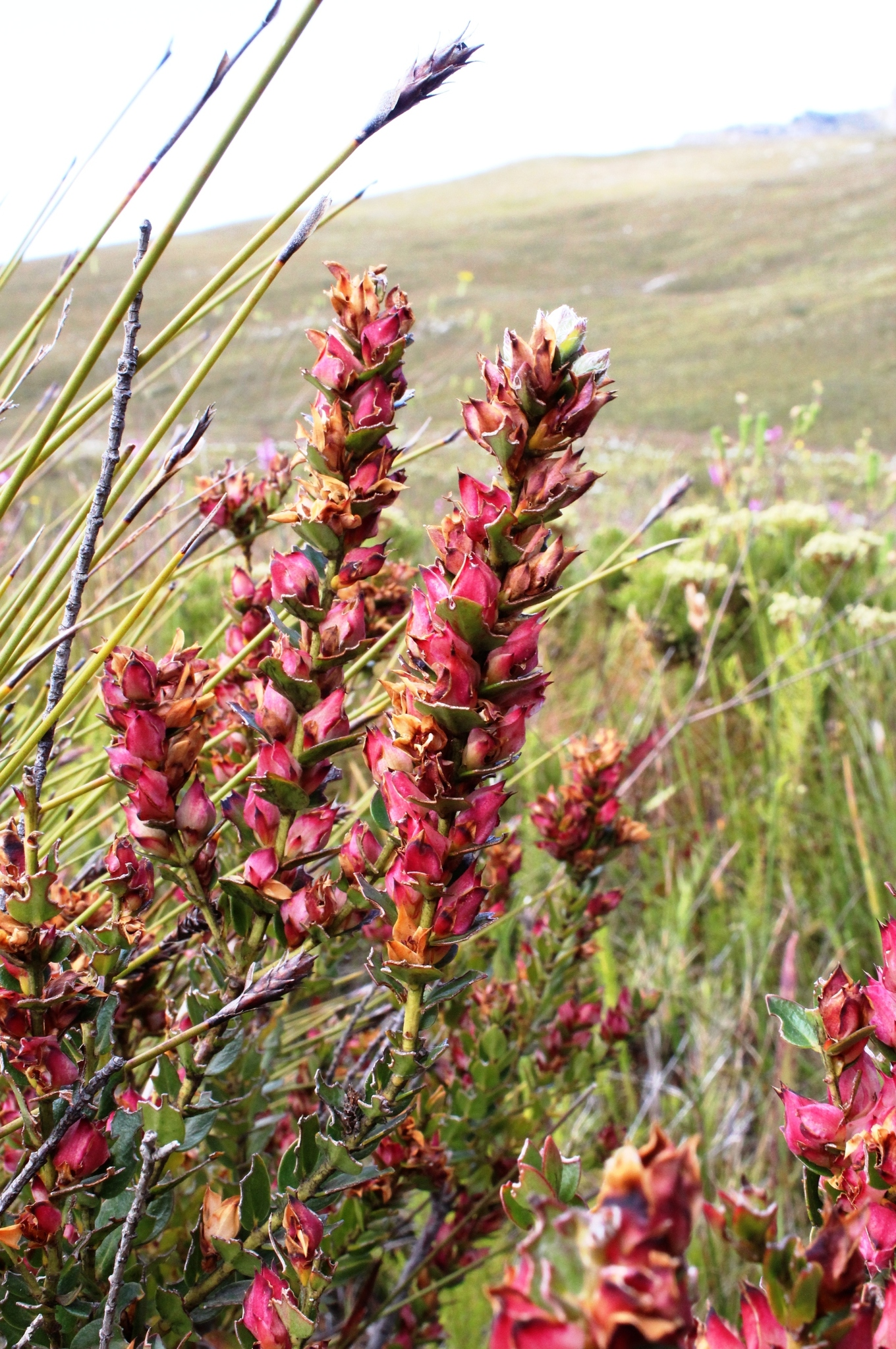 Geissoloma marginatum, photographed by Tony Rebelo, on 12 November 2011, at Tradouw Lot 876, on the ridge east of the pass, Heidelberg County, Western Cape province of South Africa